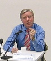 Pat Cox during a discussion at the 2004 Karlspreis ceremonies